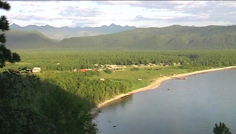 View to Davsha settlement from Nemnyanda cape